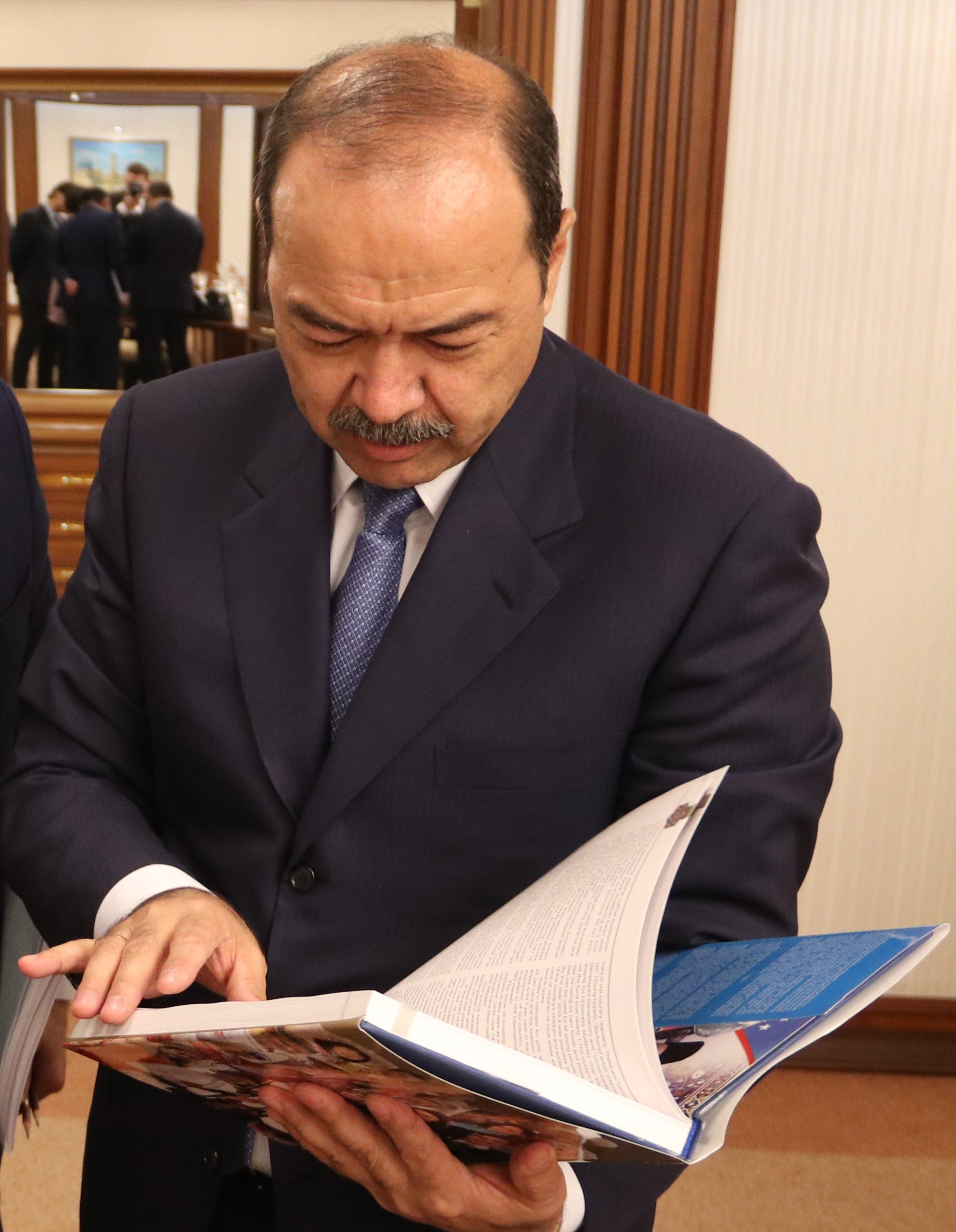 Cropped photograph of Uzbek Foreign Minister Abdulla Aripov meeting with OSCE PA President Christine Muttonen (Austria) in Tashkent, 8 May 2017